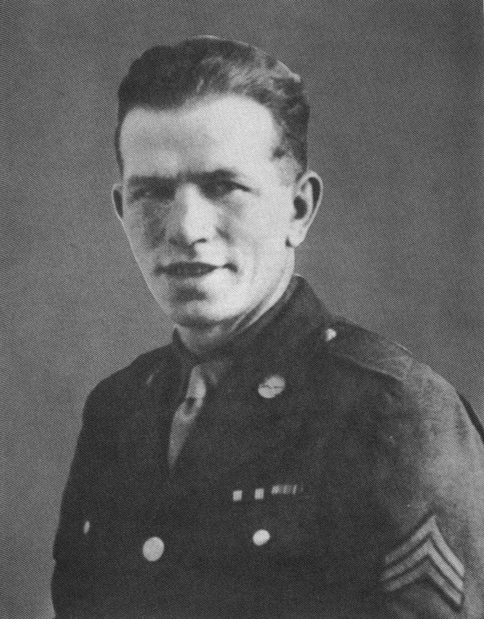 Francis J. Clark of Salem, New York, who received the Medal of Honor while with the 28th Infantry Division in World War II.